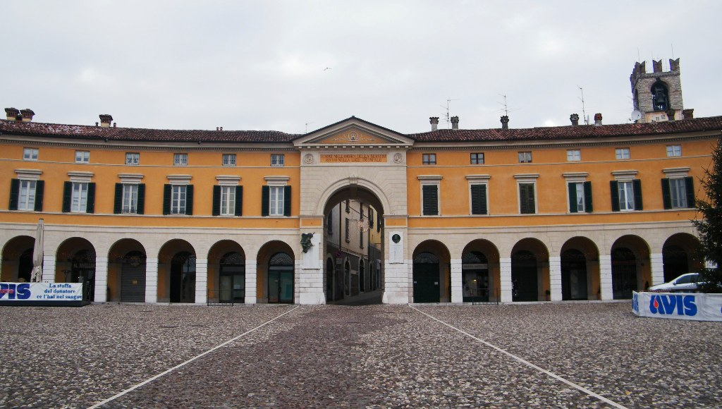 Cavour square, Rovato